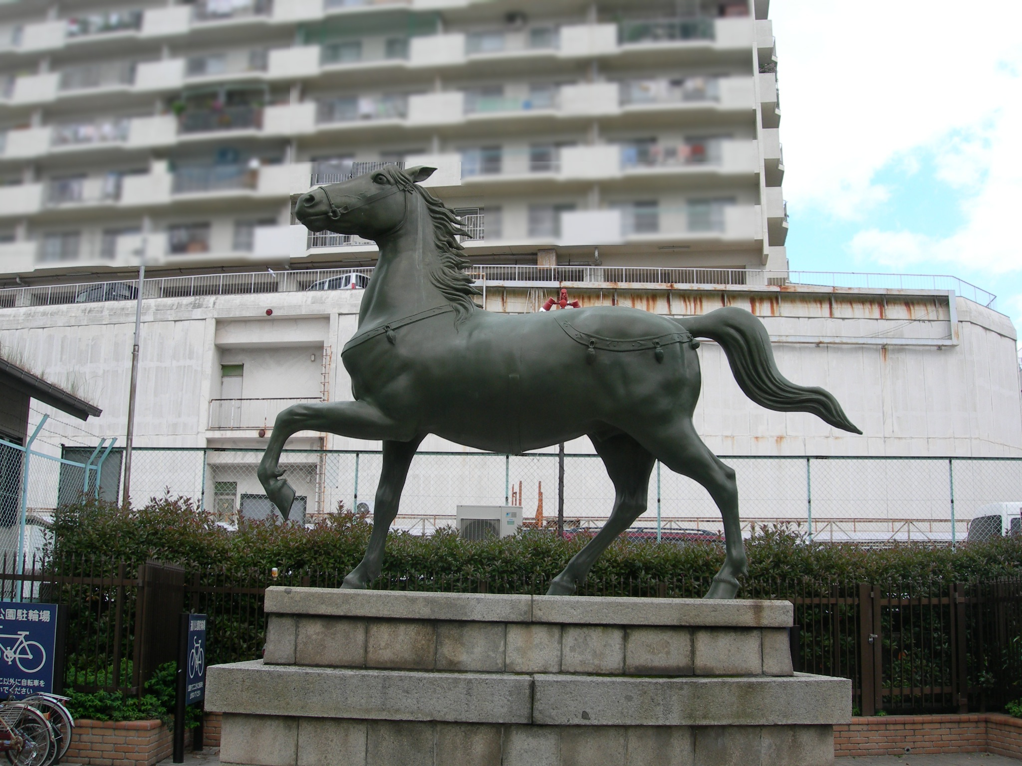 Prince Shōtoku Equestrian statue, Minatogawa Park, Hyōgo-ku, Kobe. Defunct and destroyed by an Great Hanshin earthquake, 1995 is part of Prince Shōtoku.